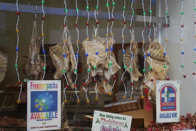 Reestit mutton in butcher's window, Lerwick Reestit mutton is salted, air-dried, smoked mutton. Traditionally, the meat was soaked in brine and hung in the rafters above a peat fire, and it is probably as close to being Shetland’s ‘national’ dish as is possible, although it is a generally agreed by non-native Shetlanders that it is an acquired taste.